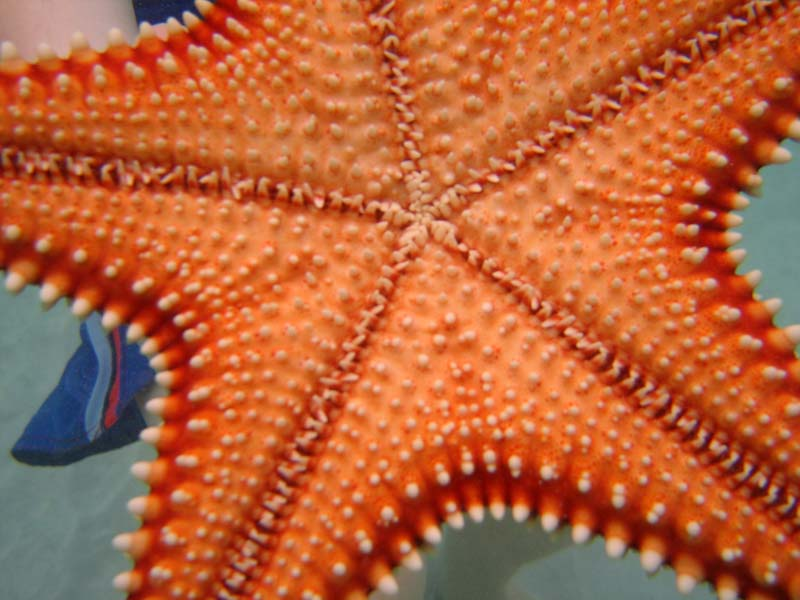 Bottom side of a red cushion seastar (Oreaster reticulatus), Bahia de la Chiva, Vieques, Puerto Rico